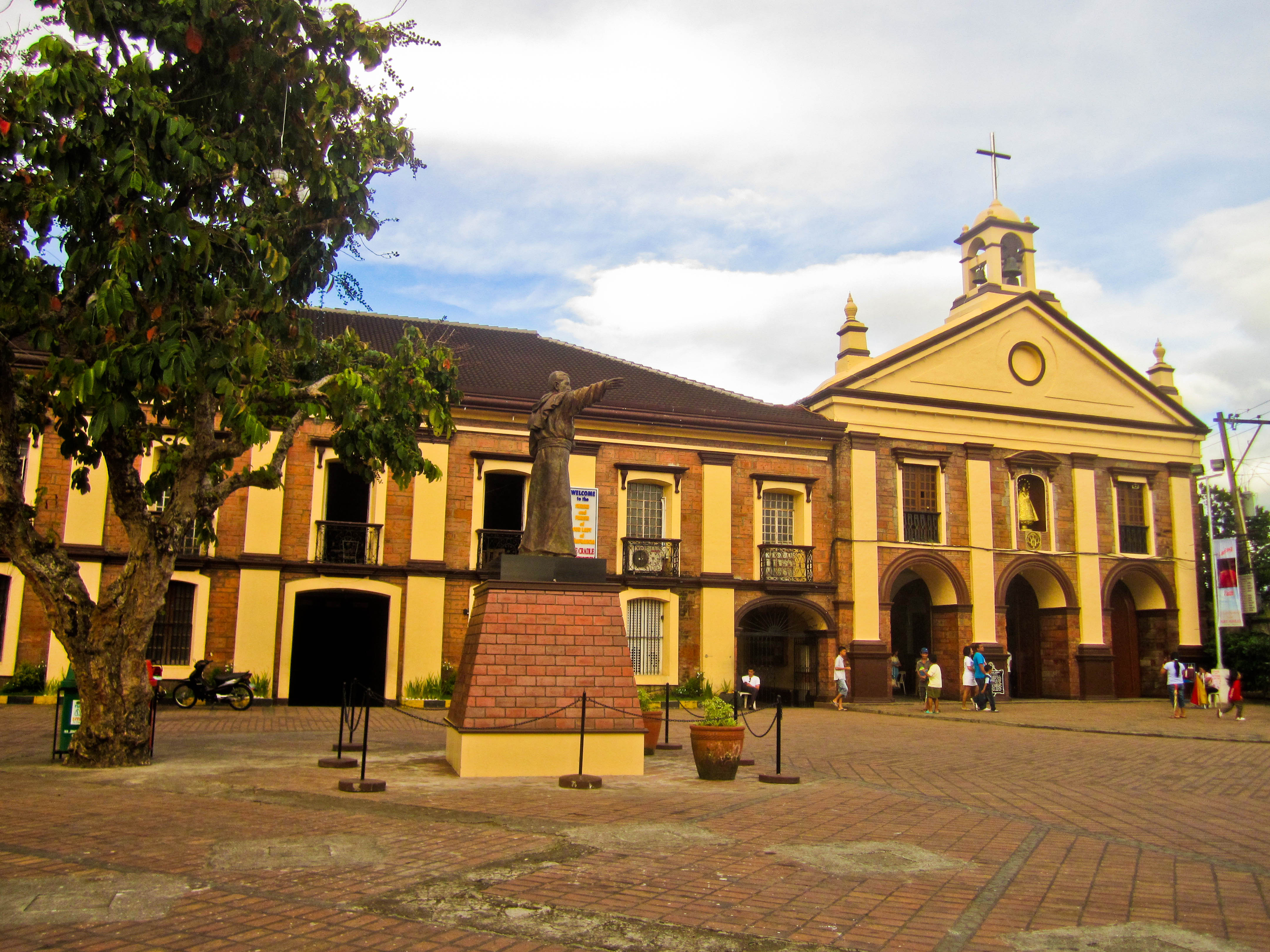 Penafrancia Shrine, Naga City